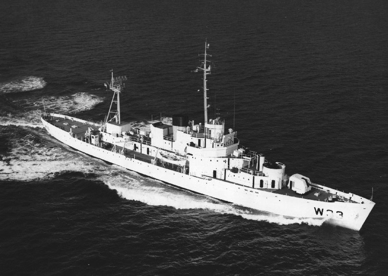 Cutter Duane (WPG-33) of the United States Coast Guard.